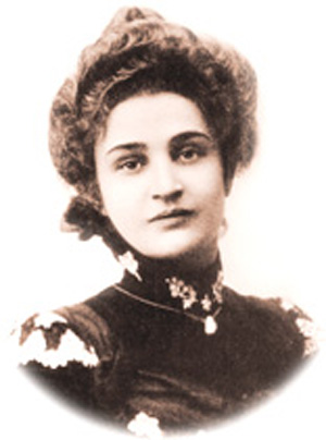 Russian poet Mirra Lokhvitskaya